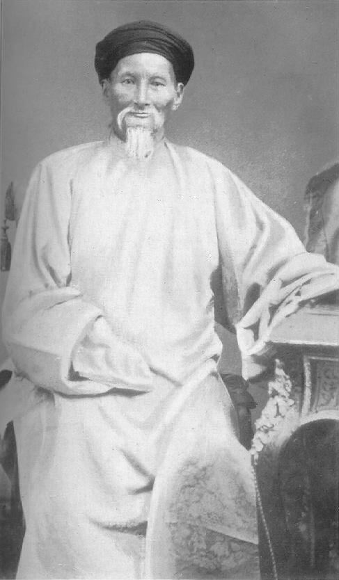 Portrait of Phan Thanh Gian, a mid-19th century mandarin.